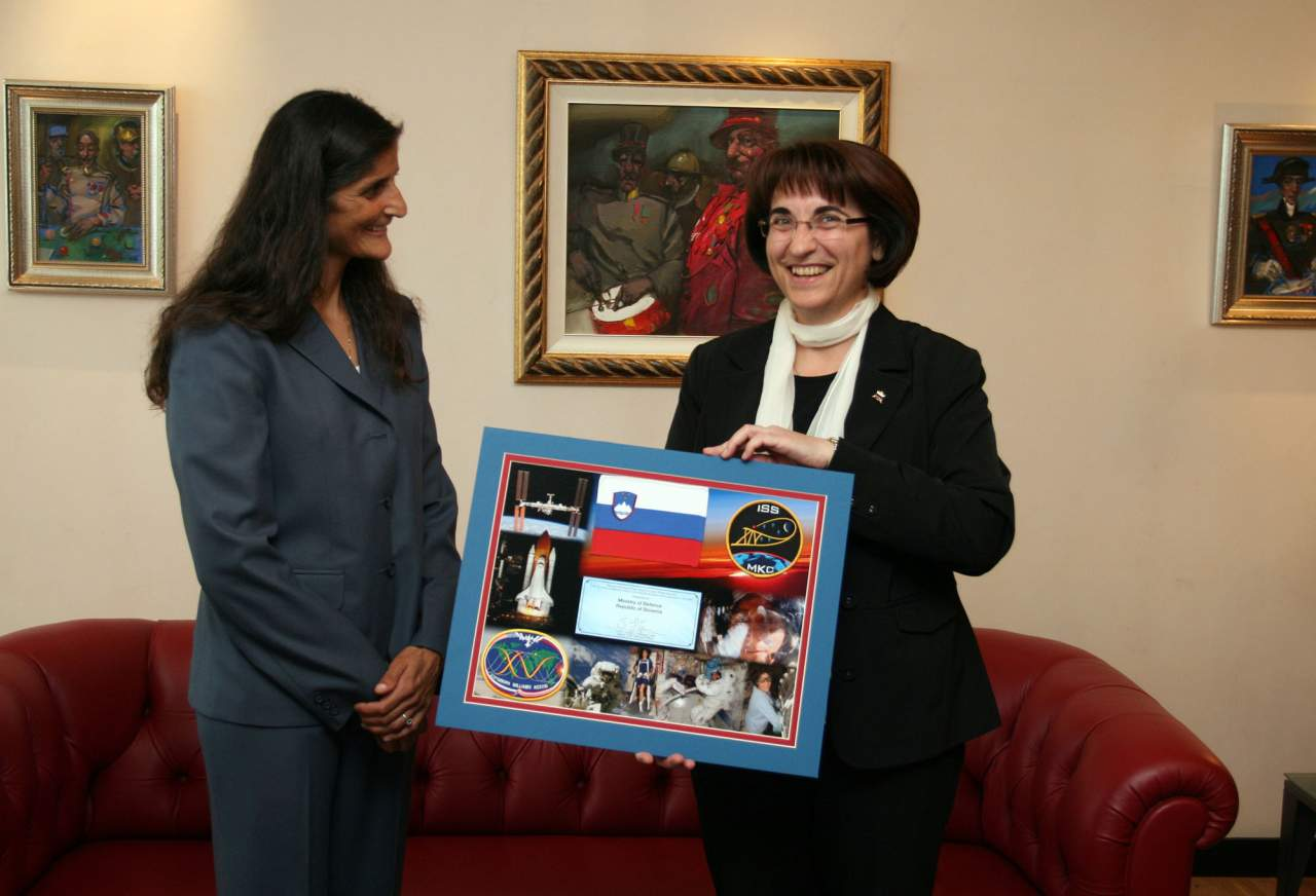 Sunita Williams and Ljubica Jelušič in 2009, Slovenia